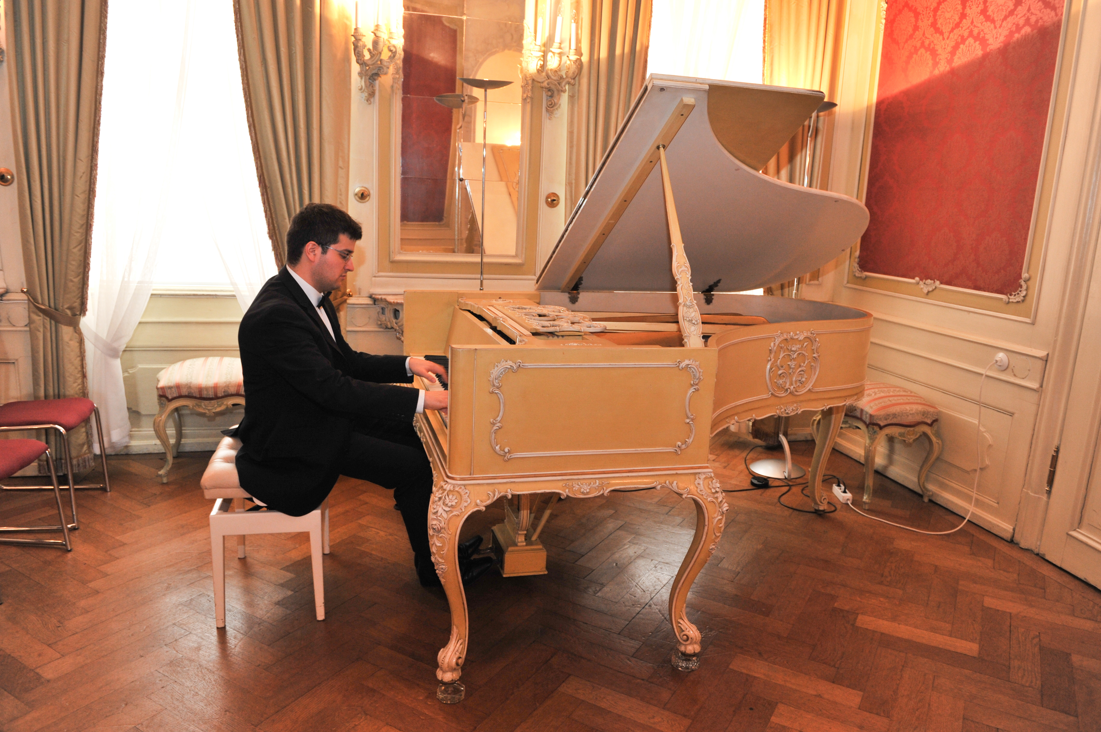 Foto: G. Büchner